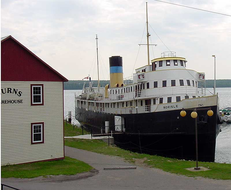 S.S. Norisle Docked Permanently At Manitowaning, Manitoulin Island, is a Tribute to the Ships of Yesterday!